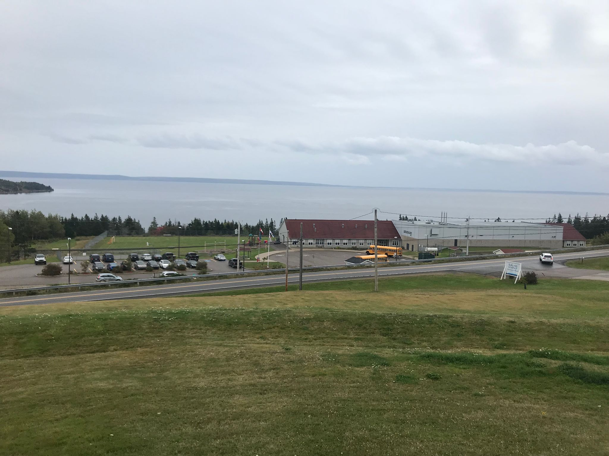 Photograph of Rankin School of the Narrows, taken October 2018, by User:sjcyoung